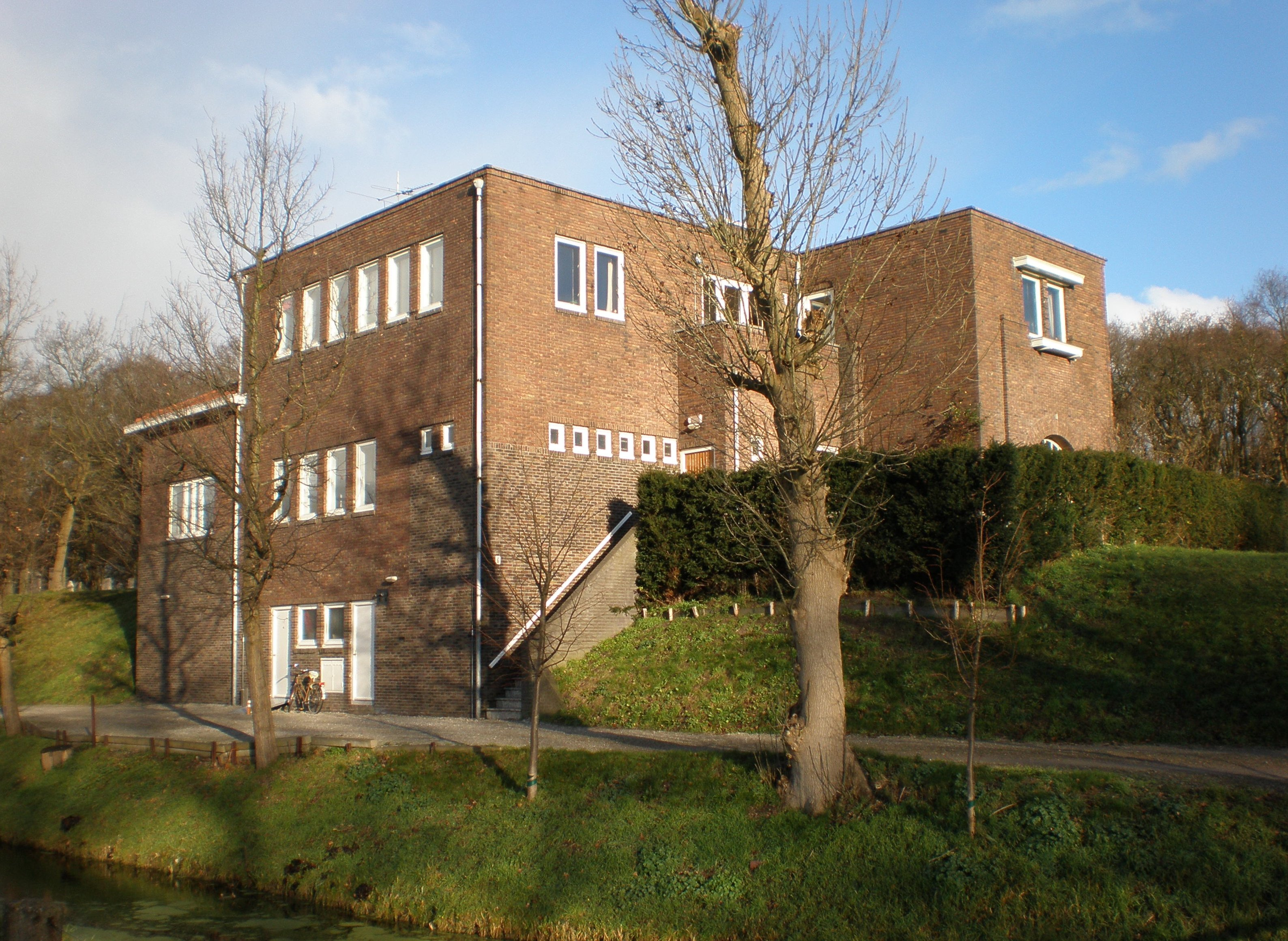 Building at the Jewish cemetery in Muiderberg.